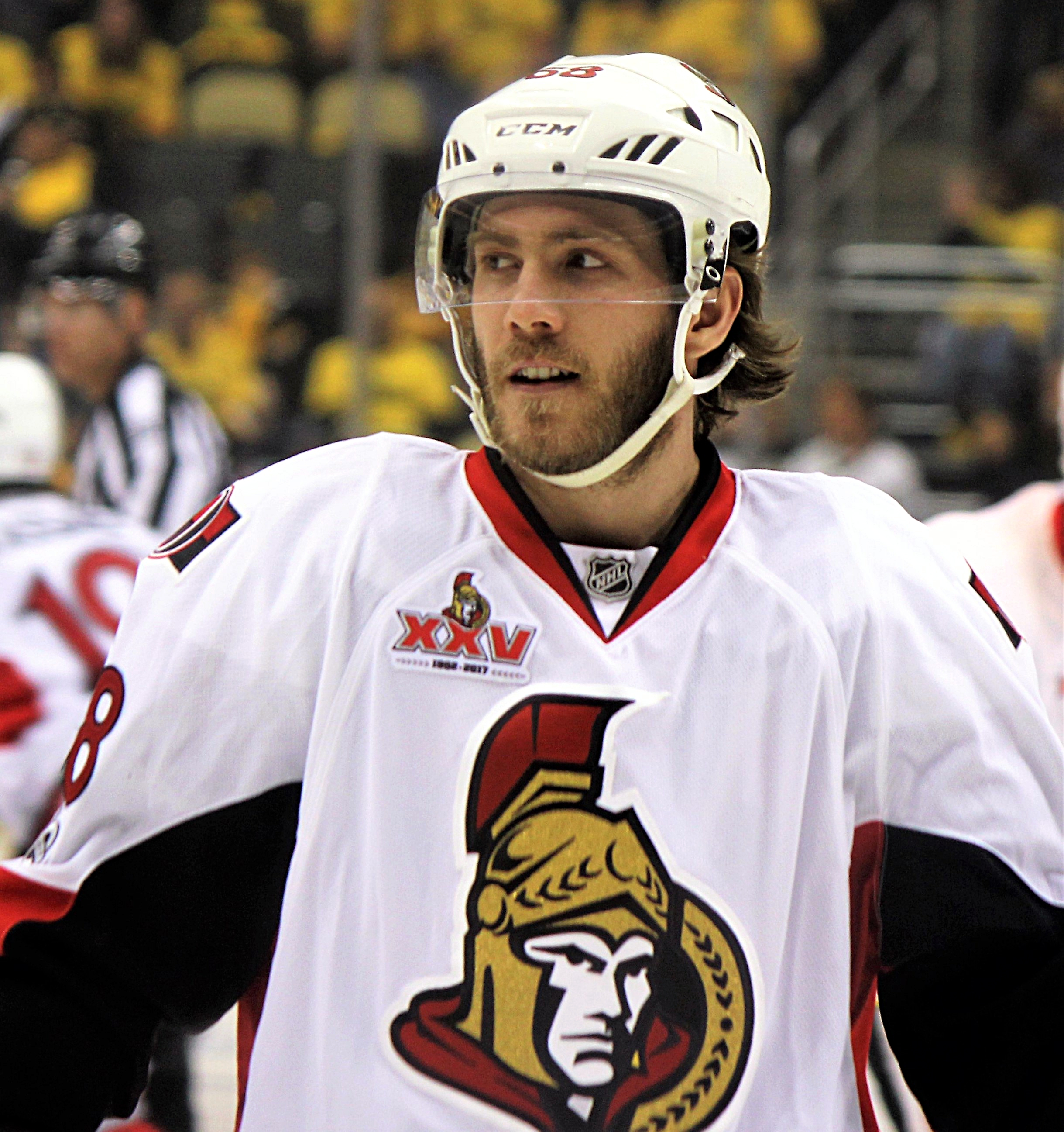 Ottawa Senators forward Mike Hoffman during a playoff game against the Pittsburgh Penguins, May 13, 2017, at PPG Paints Arena in Pittsburgh, PA.